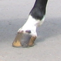 Scenes of Budapest (see filename)